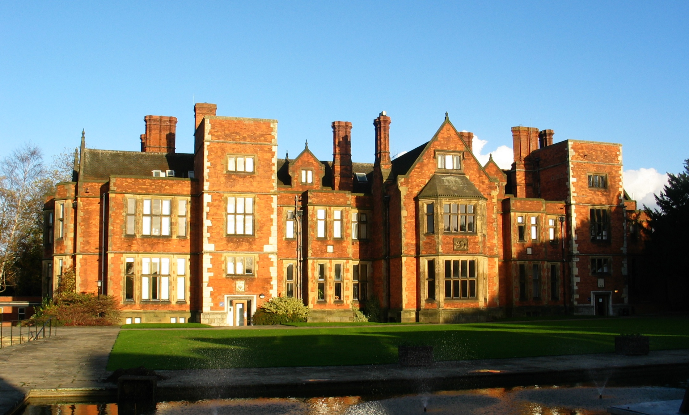 University of York in England: Heslington Hall.